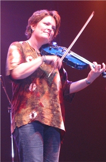 Original photograph taken by me at Lorient, Brittany in 2003